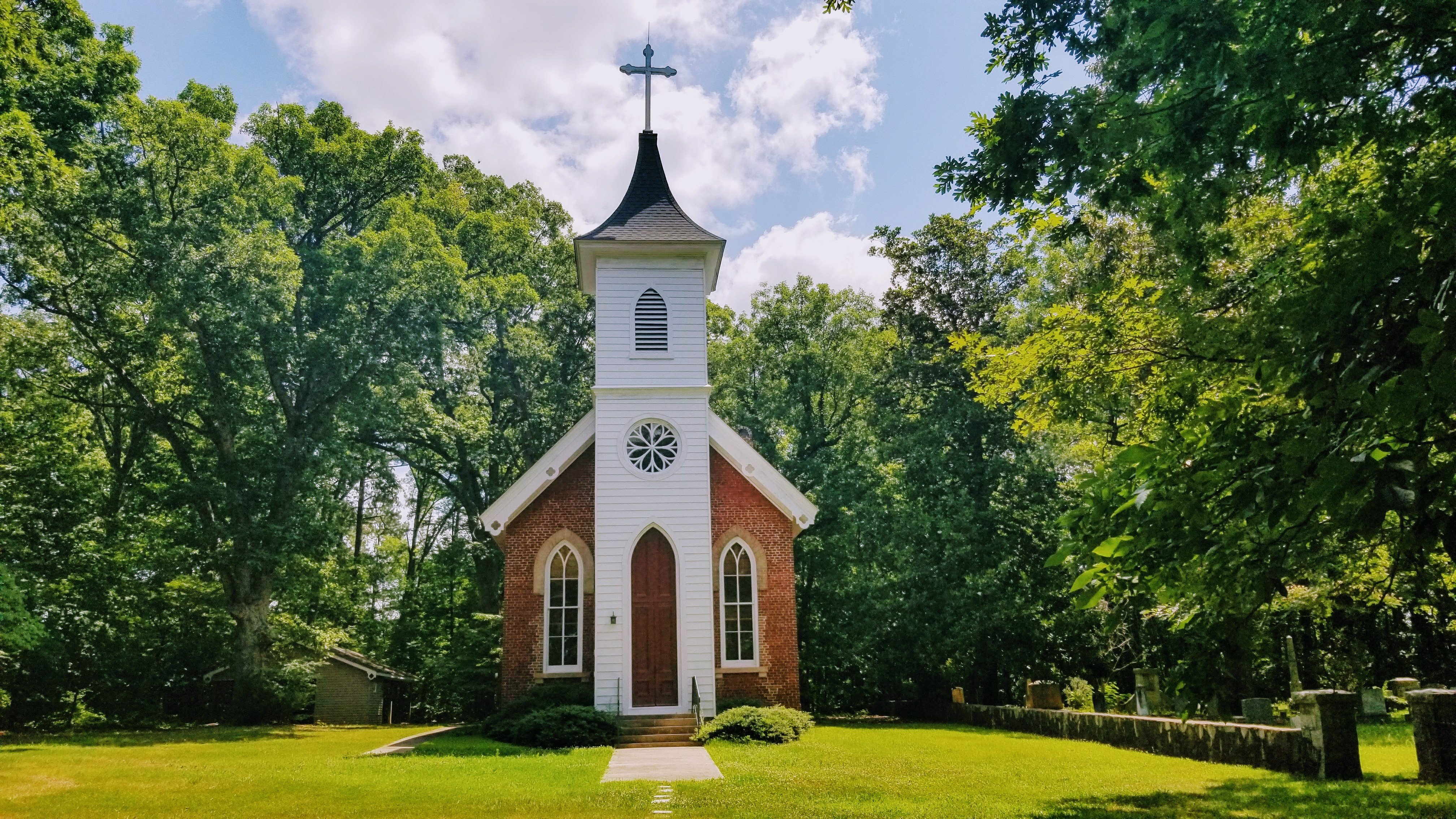 Exterior front view of the Chapel